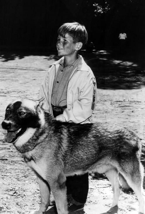 Photo of Flip Mark as Brook Hooten and Tonka from the television program Guestward Ho!.